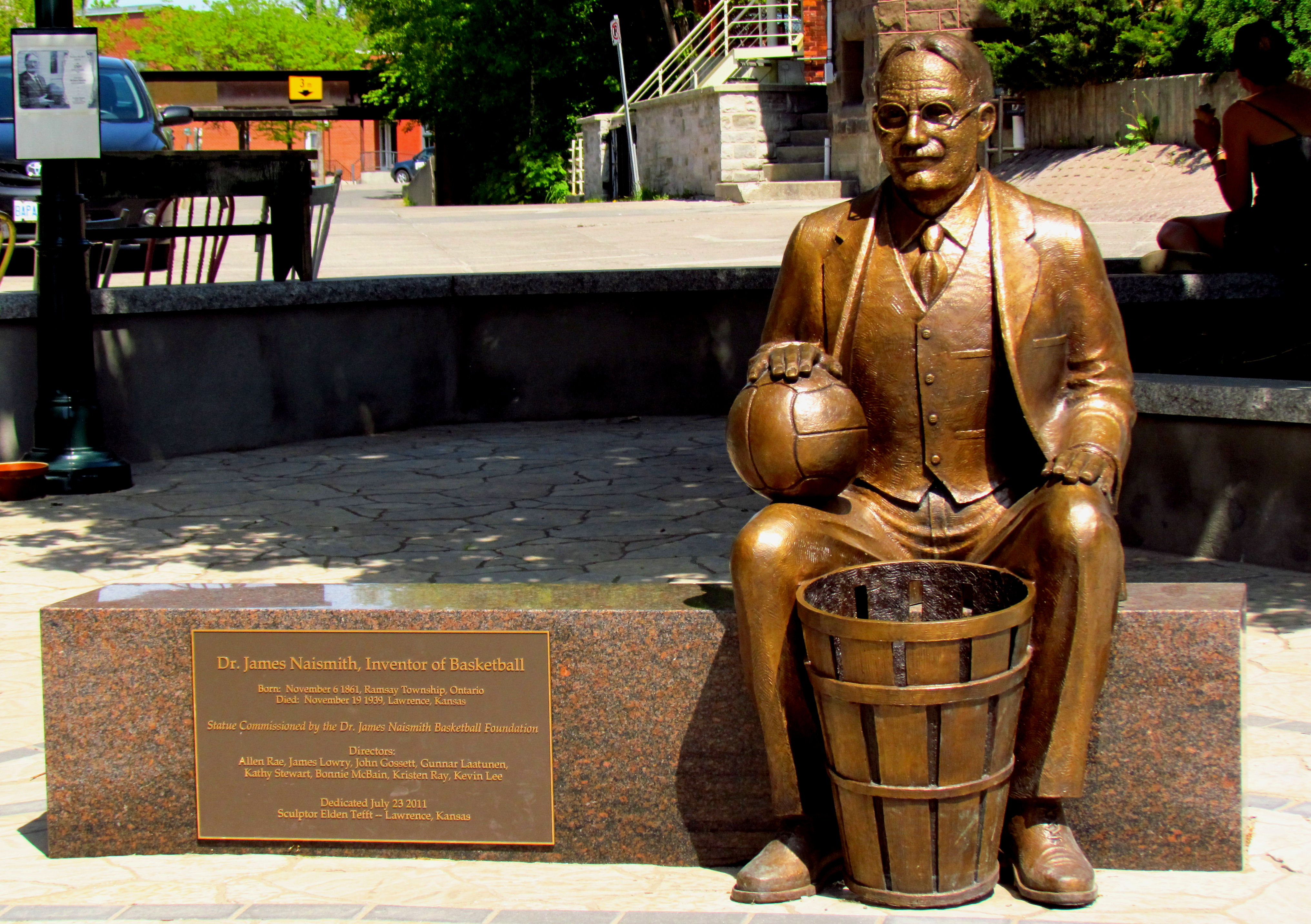 Sculpture Dr. James Naismith, Inventor of Basketball, sculptor: Elden Tefft, Lawrence, Kansas, dedicated 23 July 2011